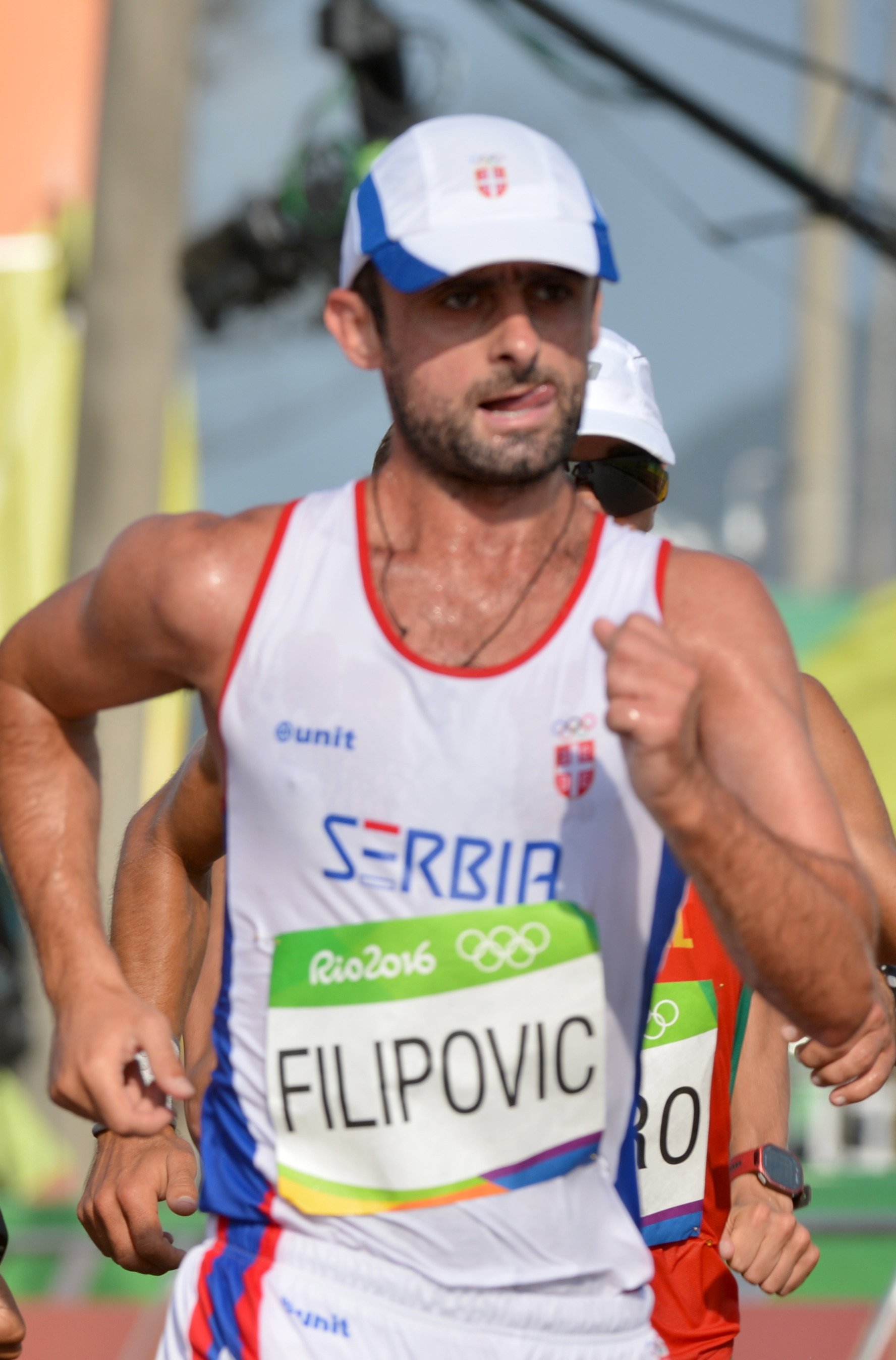 Predrag Filipović race walks 50 kilometers at Rio Olympic Games